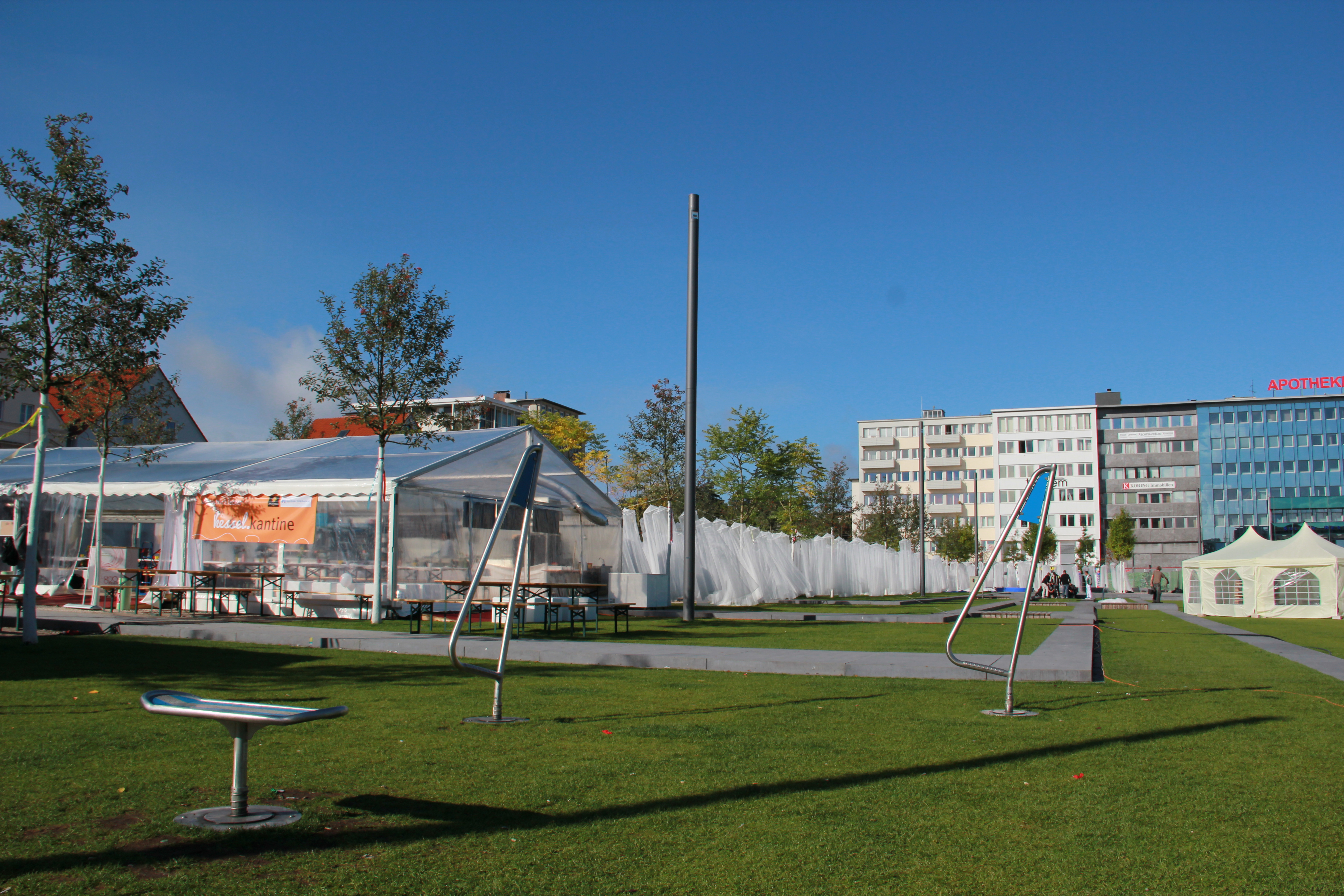 The Kesselbrink in Bielefeld after refurbishment. The white fly nets in the background are part of a theatrical performance.